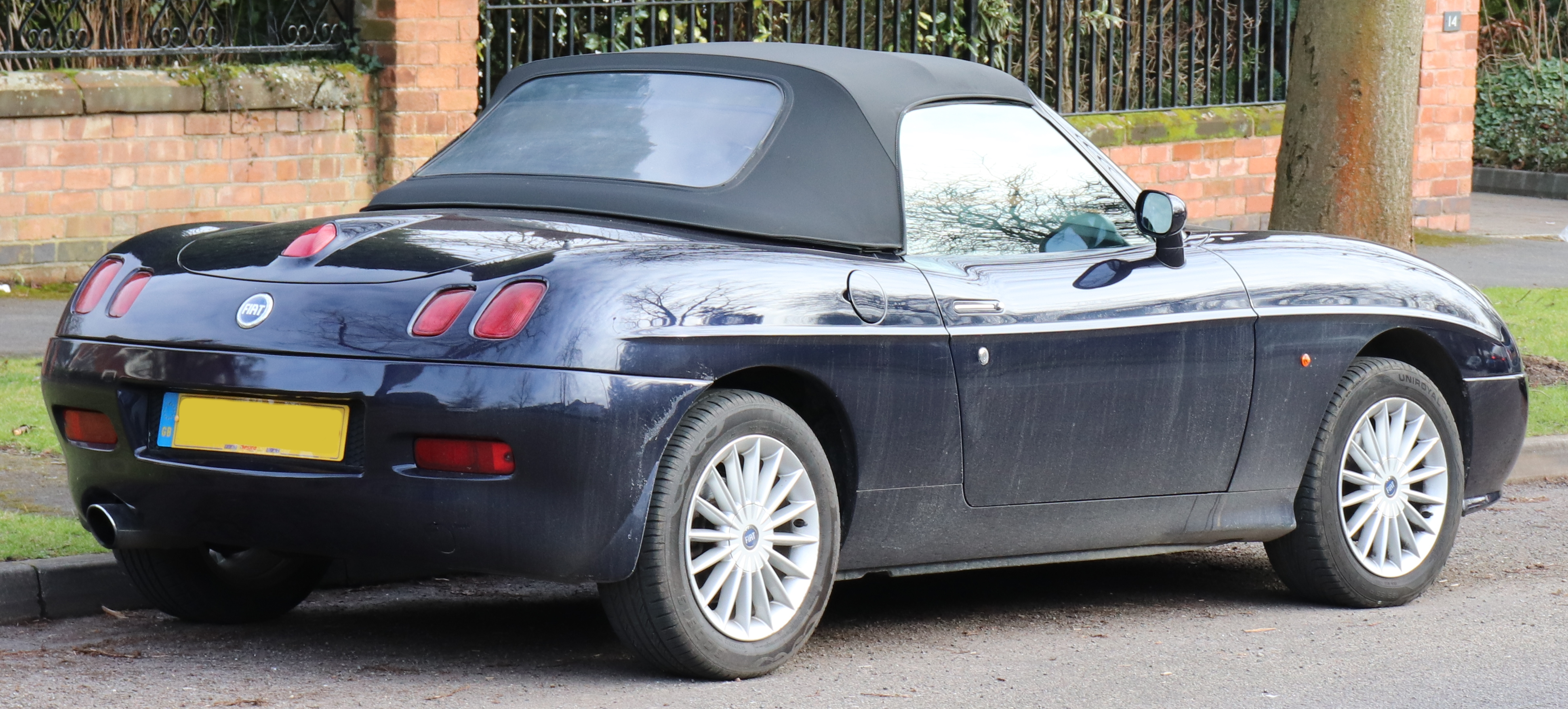 2005 Fiat Barchetta 16V 1.7 Rear Taken in Leamington Spa